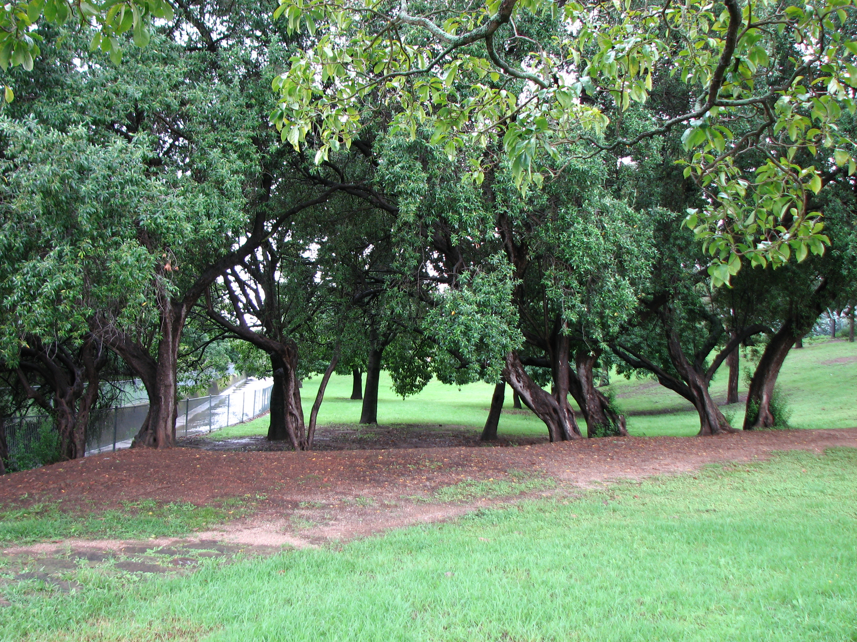 View of part of the public reserve adjacent to Elizabeth Farm, Rosehill, New South Wales. A creek is present , behind a fence to the left of the photo.